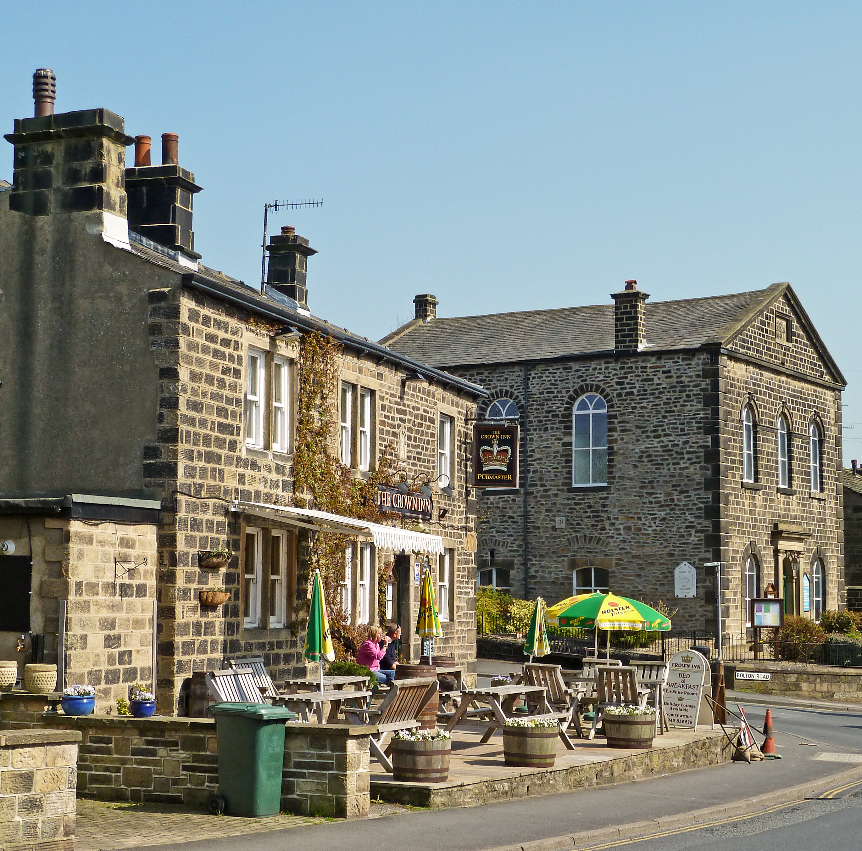 Crown Inn and Chapel, Addingham